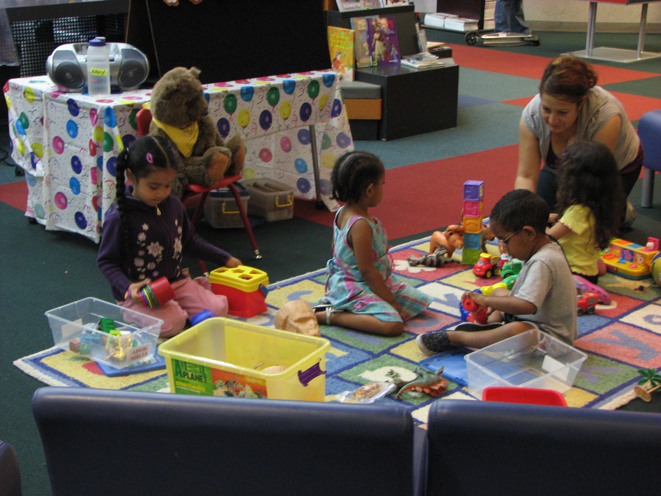 San Jose library, playing area.